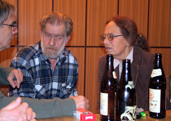 Andrzej Gwiazda and Joanna Duda-Gwiazda.